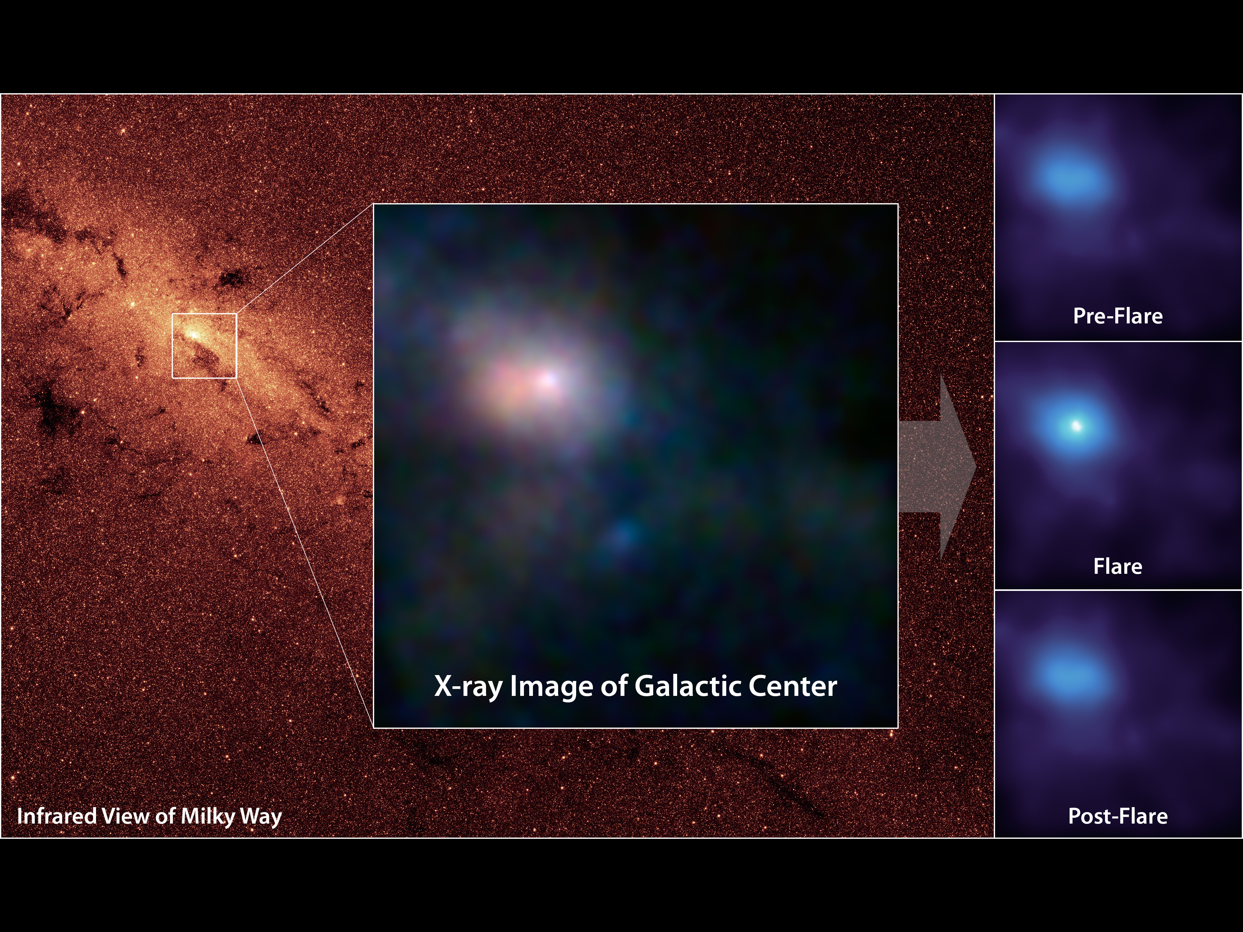 NASA's Nuclear Spectroscopic Telescope Array, or NuSTAR, has captured these first, focused views of the supermassive black hole at the heart of our galaxy in high-energy X-ray light. The background image, taken in infrared light, shows the location of our Milky Way's humongous black hole, called Sagittarius A*, or Sgr A* for short. In the main image, the brightest white dot is the hottest material located closest to the black hole, and the surrounding pinkish blob is hot gas, likely belonging to a nearby supernova remnant. The time series at right shows a flare caught by NuSTAR over an observing period of two days in July; the middle panel shows the peak of the flare, when the black hole was consuming and heating matter to temperatures up to 180 million degrees Fahrenheit (100 million degrees Celsius). The main image is composed of light seen at four different X-ray energies. Blue light represents energies of 10 to 30 kiloelectron volts (keV); green is 7 to 10 keV; and red is 3 to 7 keV. The time series shows light with energies of 3 to 30 keV. The background image of the central region of our Milky Way was taken at shorter infrared wavelengths by NASA's Spitzer Space Telescope.